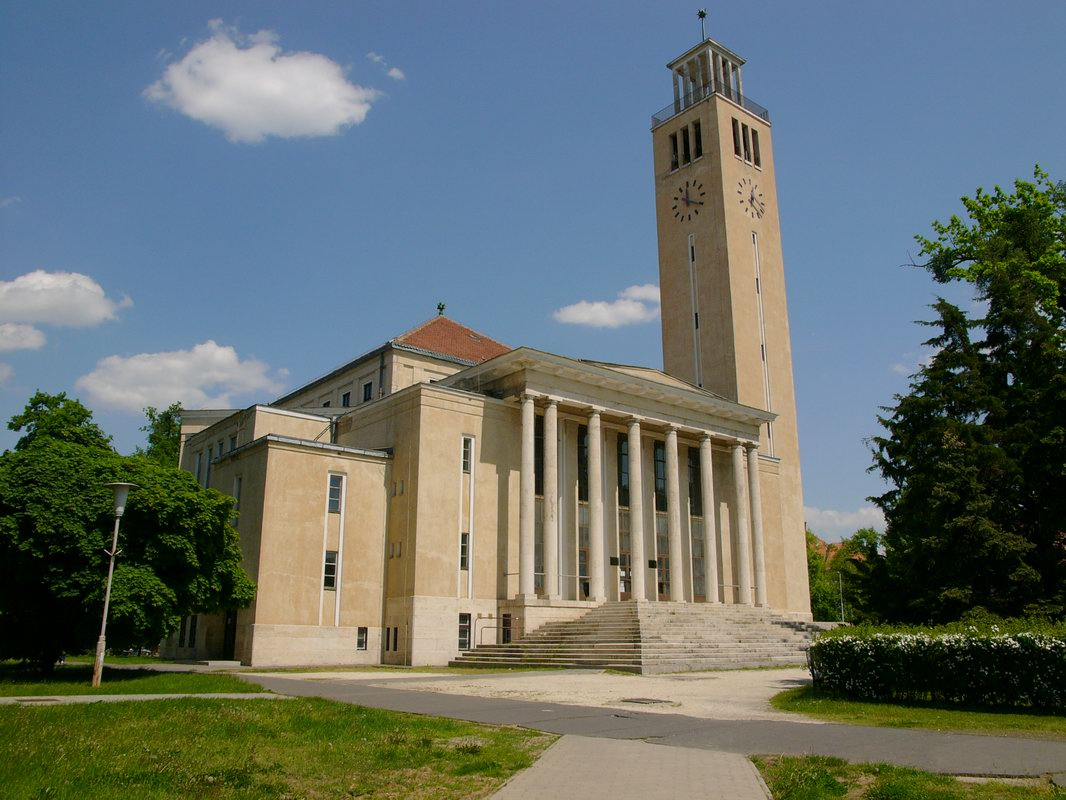 Calvinistic University-Church near the main building of the University Debrecen.